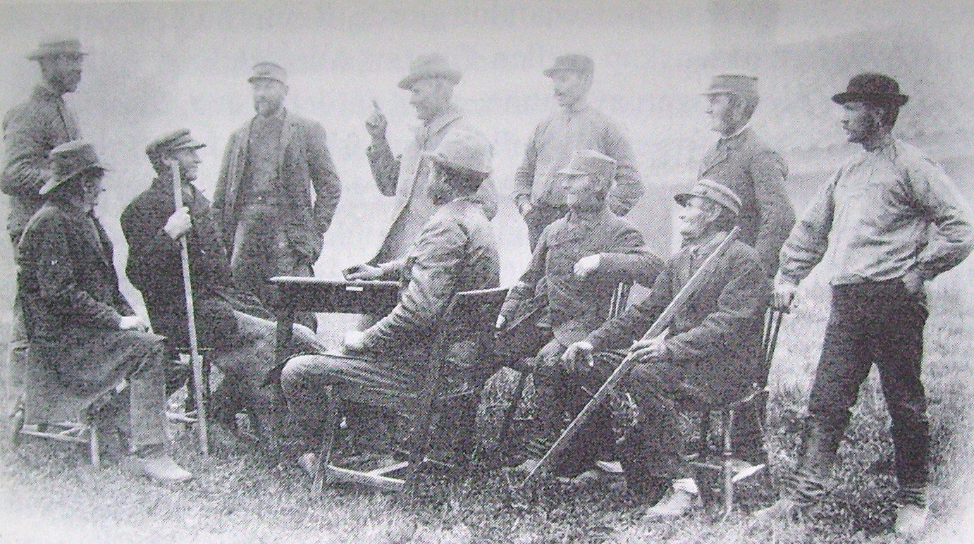 Picture of village meeting in Sweden in 1800s